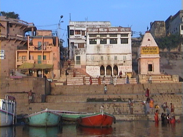 See Varanasi Development Cooperation Handbook/Stories/Responsible Development - Varanasi The Varanasi Heritage Dossier Kautilya Society Play media Vrinda Dar - How we got involved in heritage protection of Varanasi